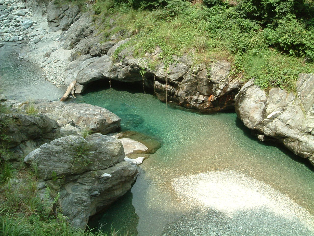 A mountain torrent of the Douzan-river(At Niihama-city,Japan).